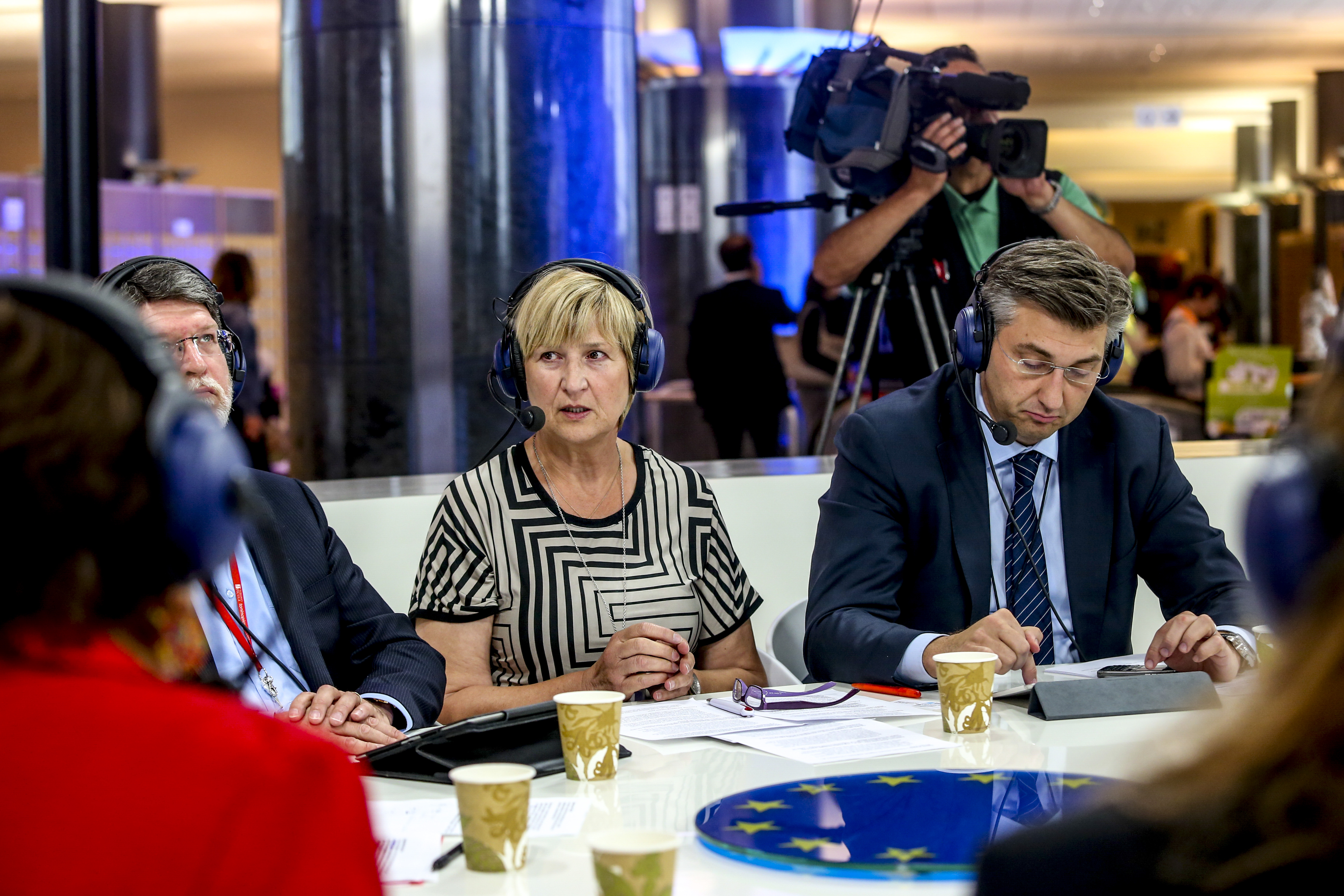 The quick and the dead. Europe’s migration crisis – the Euranet Plus radio network, in partnership with HRT Radio (Croatia), hosted a live debate from the European Parliament discussing migrations policy. What can the European Union really do? Euranet Plus and HRT Croatia debated the crisis in a bilingual debate moderated by journalist Barbara Peranić of HRT Radio (in Croatian) and Brian Maguire of the Euranet Plus News Agency in Brussels (in English). The debate also featured students of the Euranet Plus campus radio network from Croatia (Radio Student) and Spain (Universidade de Vigo). Get all the details about the guests, photos and video recording at